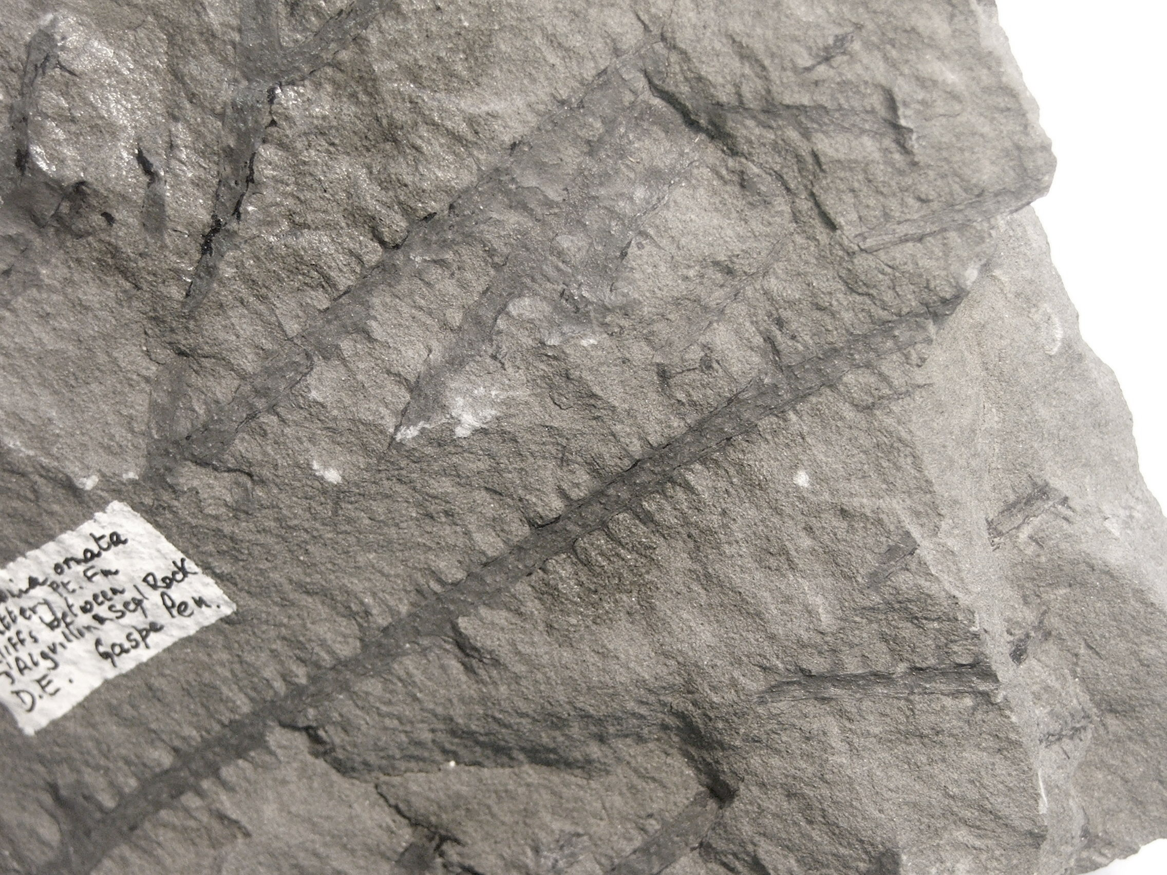 Sawdonia ornata. Collected from the Lower Devonian Battery Point formation (Emsian stage of Quebec), from cliffs between D'algvillon and seql rock, by Dianne Edwards.